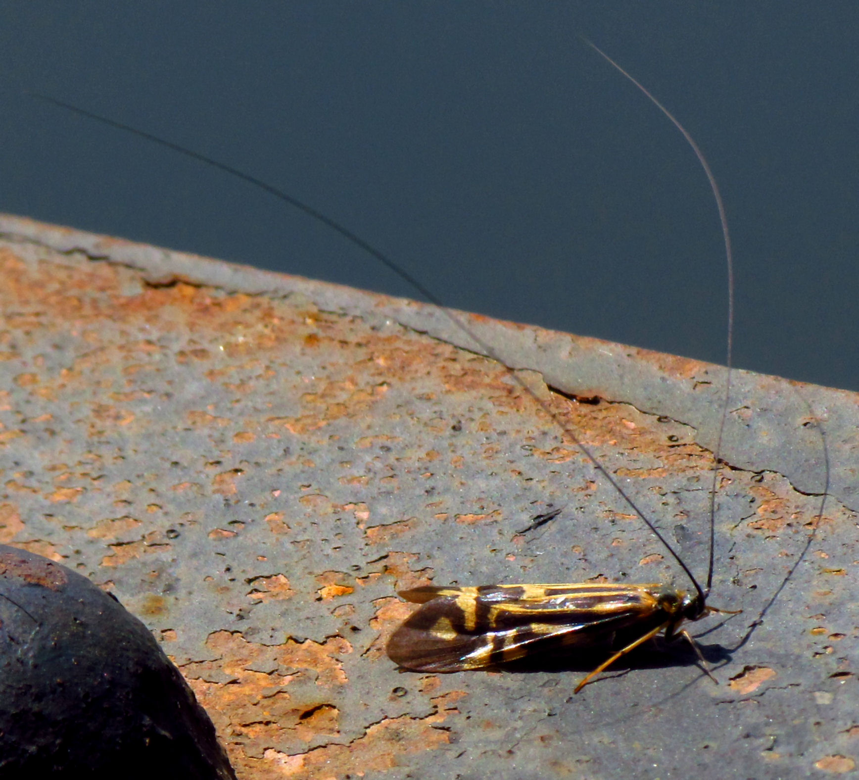 Zebra Caddis (Macrostemum zebratum), Ottawa, Ontario, Canada